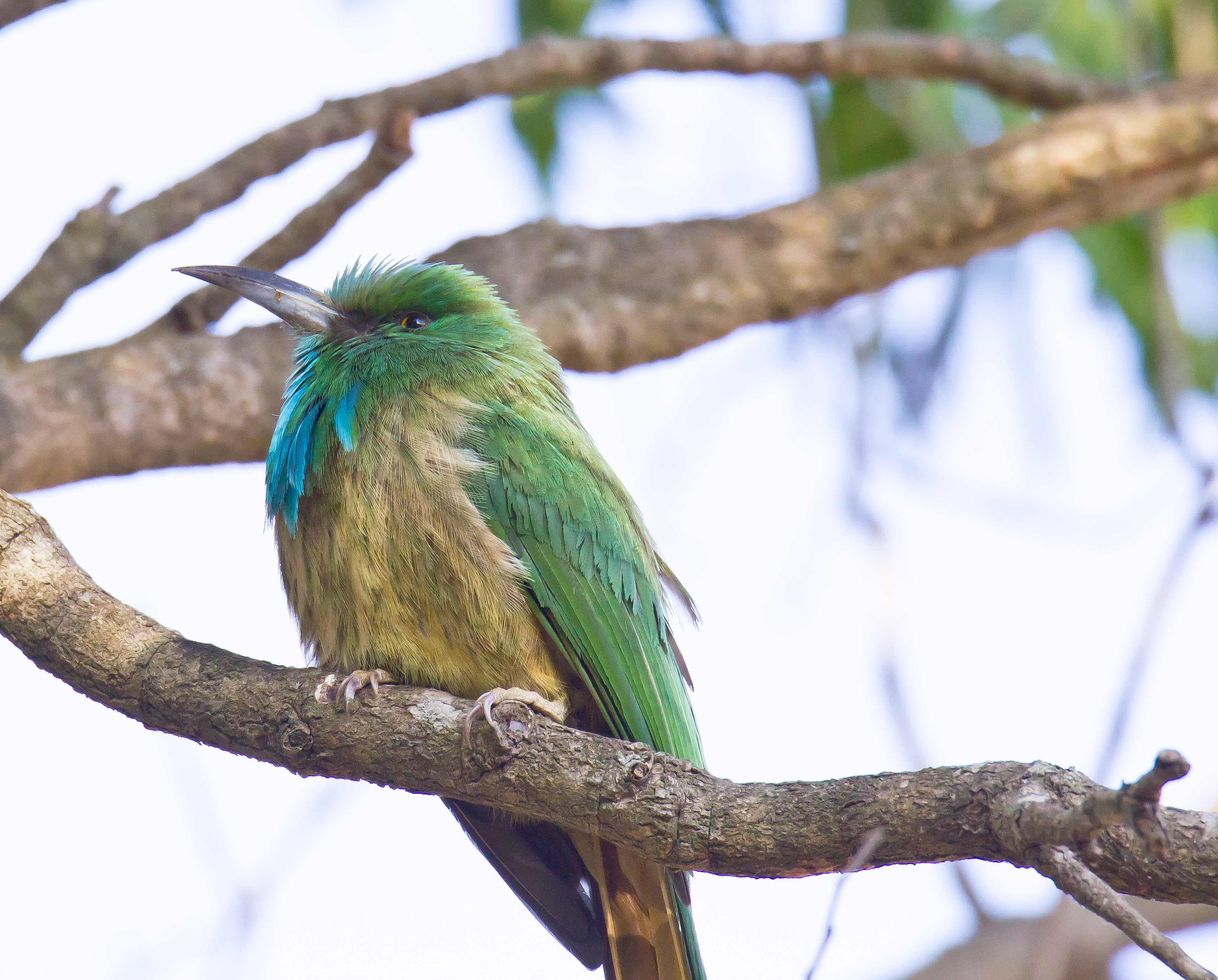 Blue bearded Bee eater , in Ramakrishna Ashrama , Bangalore